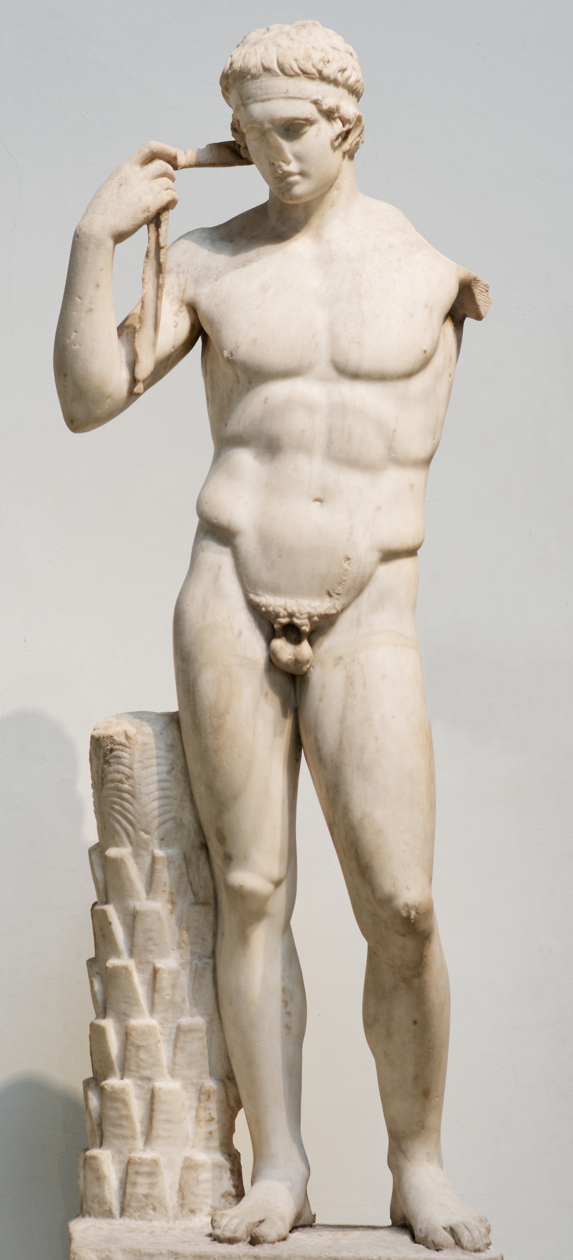 Athlete tying the victor's ribbon around his head. Marble, Roman copy after a Greek bronze original. The subject is similar to that of Polykleitos but varies slightly in stance.